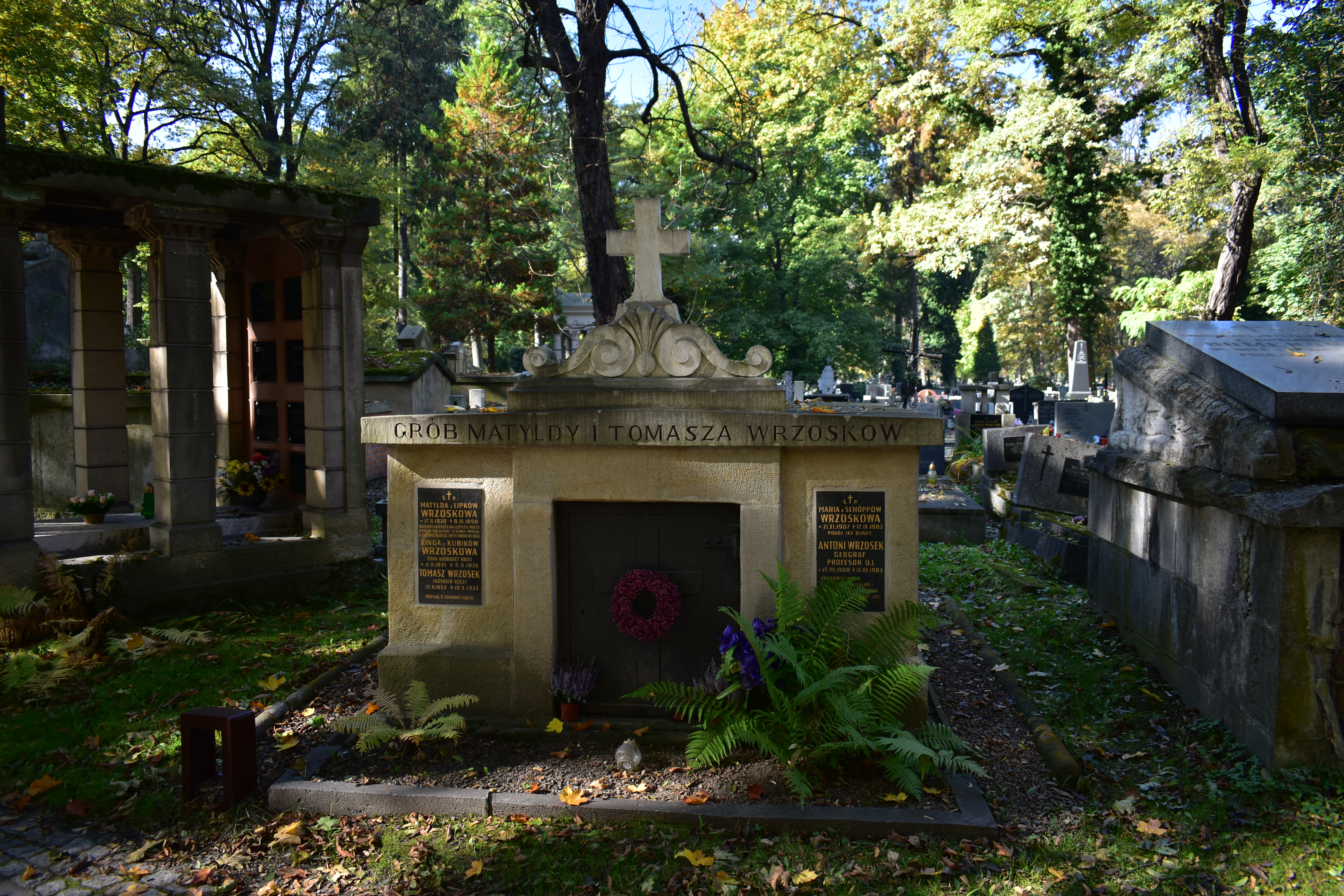 Grave of Wrzosek family, Rakowice Cemetery, 26 Rakowicka street, Krakow, Poland